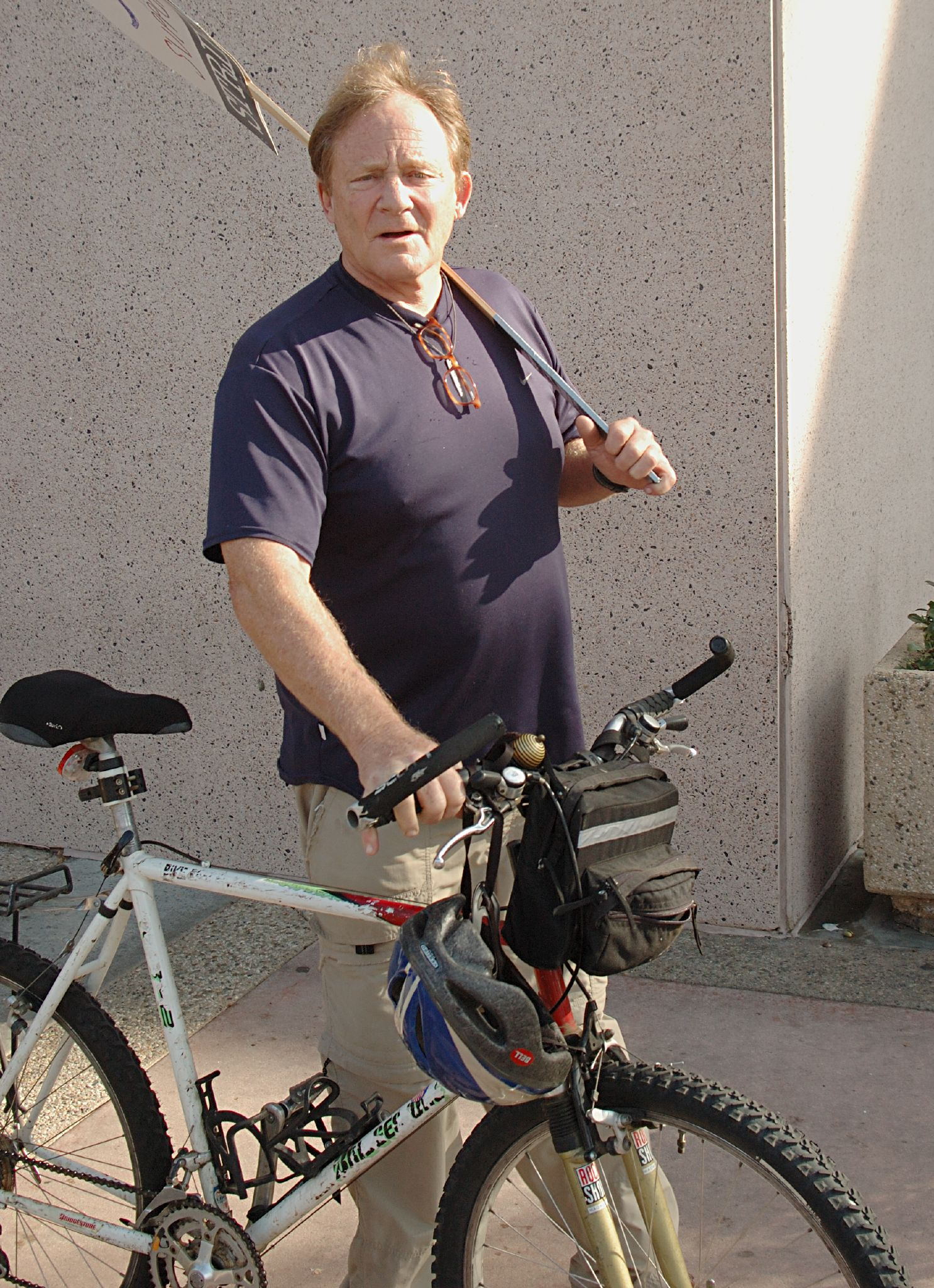 American actor and filmmaker and Charles Haid during the 2007 WGA strike.